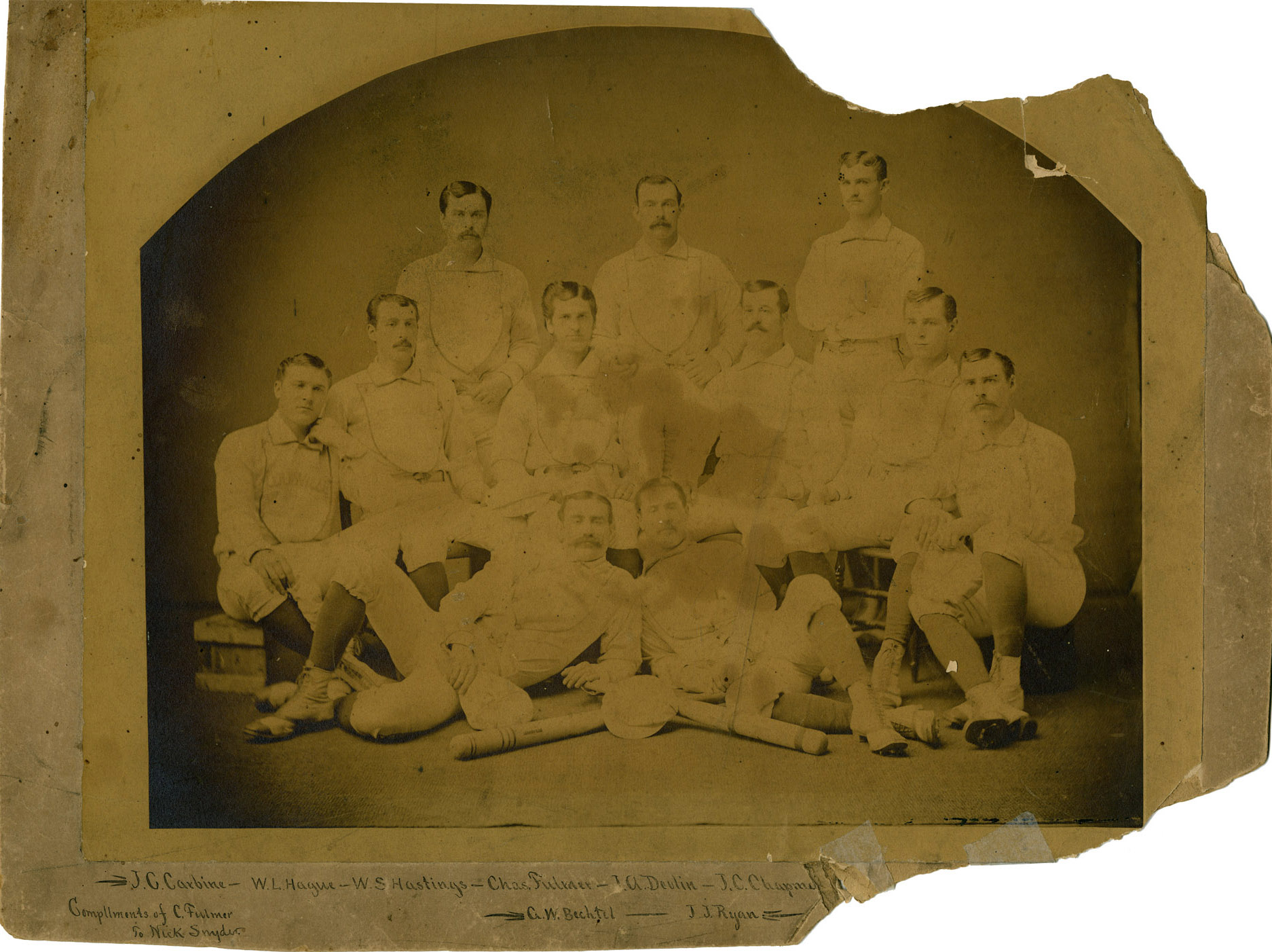 1876 team of the Louisville Grays.